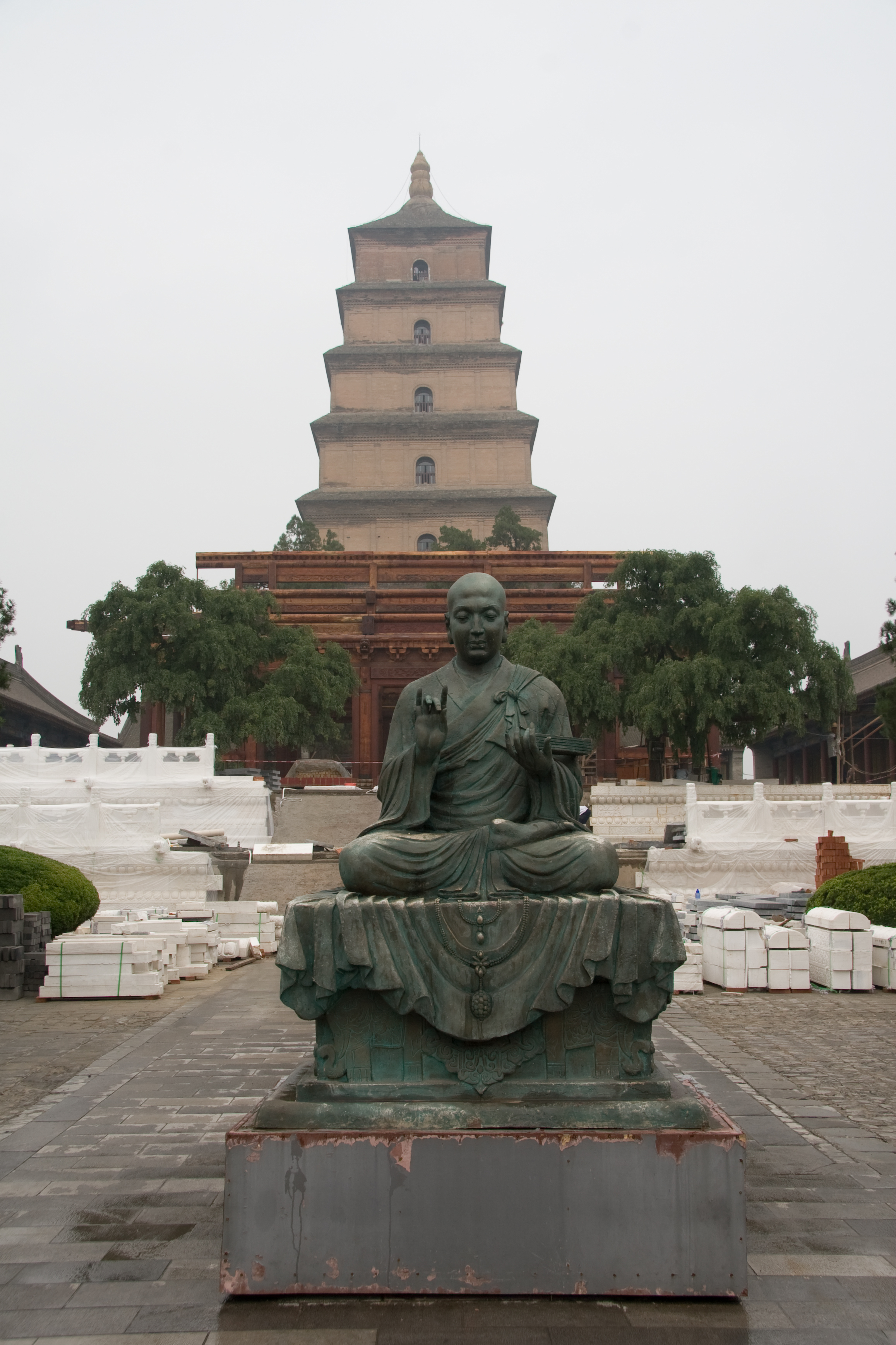 Giant Wild Goose Pagoda in Xi'an, China